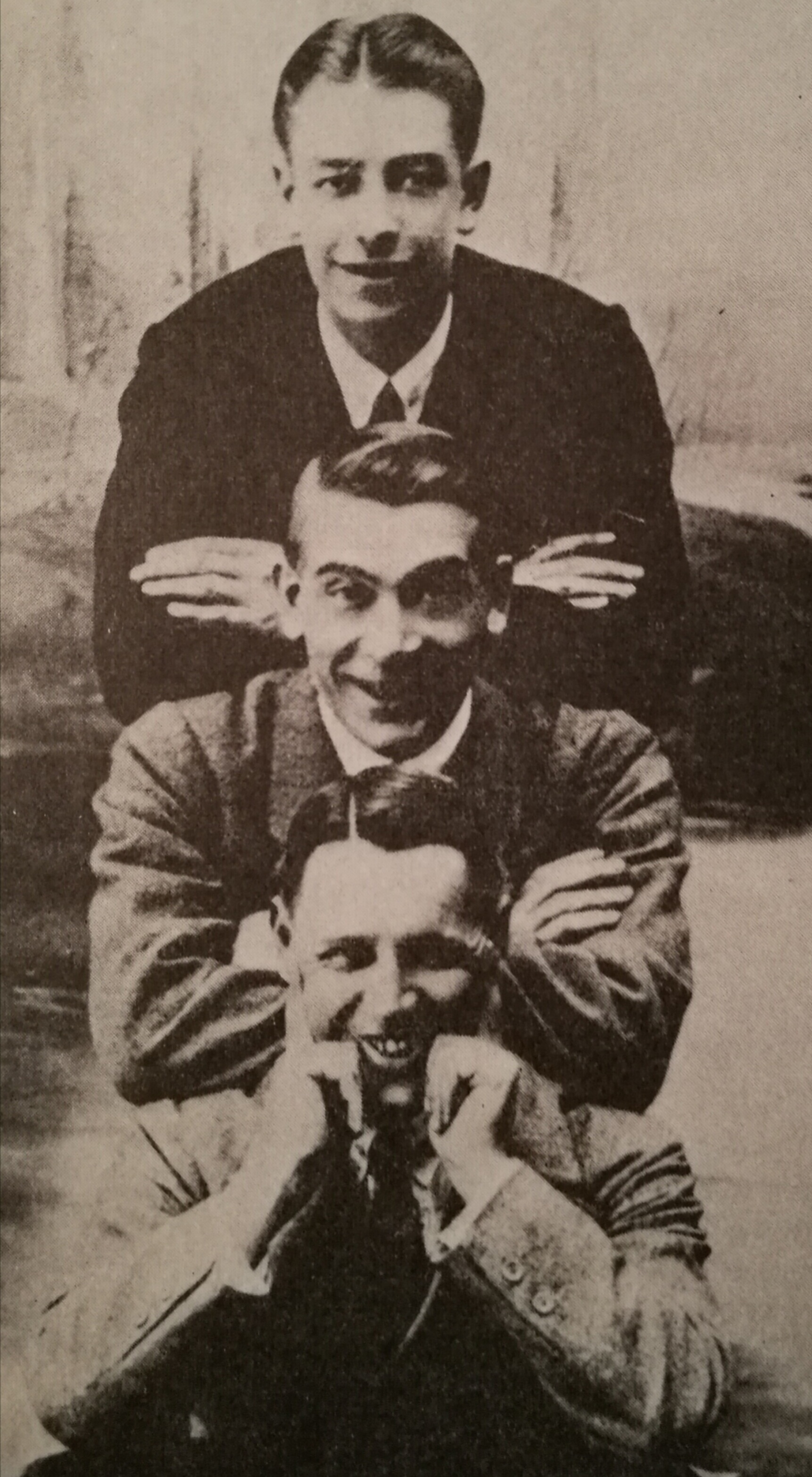 The Finnish entertainers Harald Winter, Rafael Ramstedt and J. Alfred Tanner in the 1920s